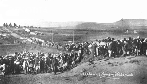 Transvaal Protest March organized by Gandhi, October-November 1913. "Stopped at border, Volksrust"